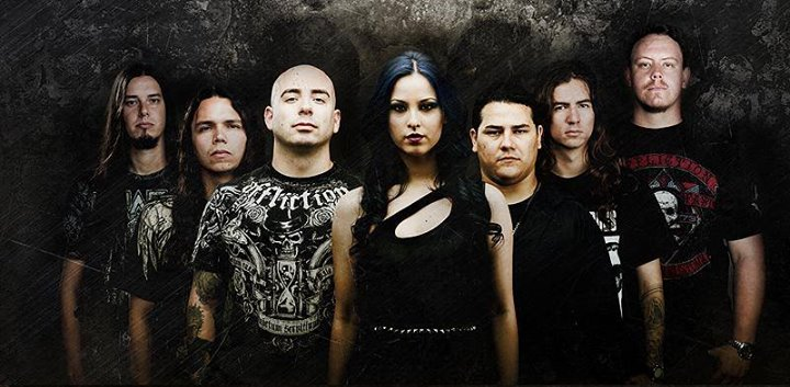 Lunar Manifesto